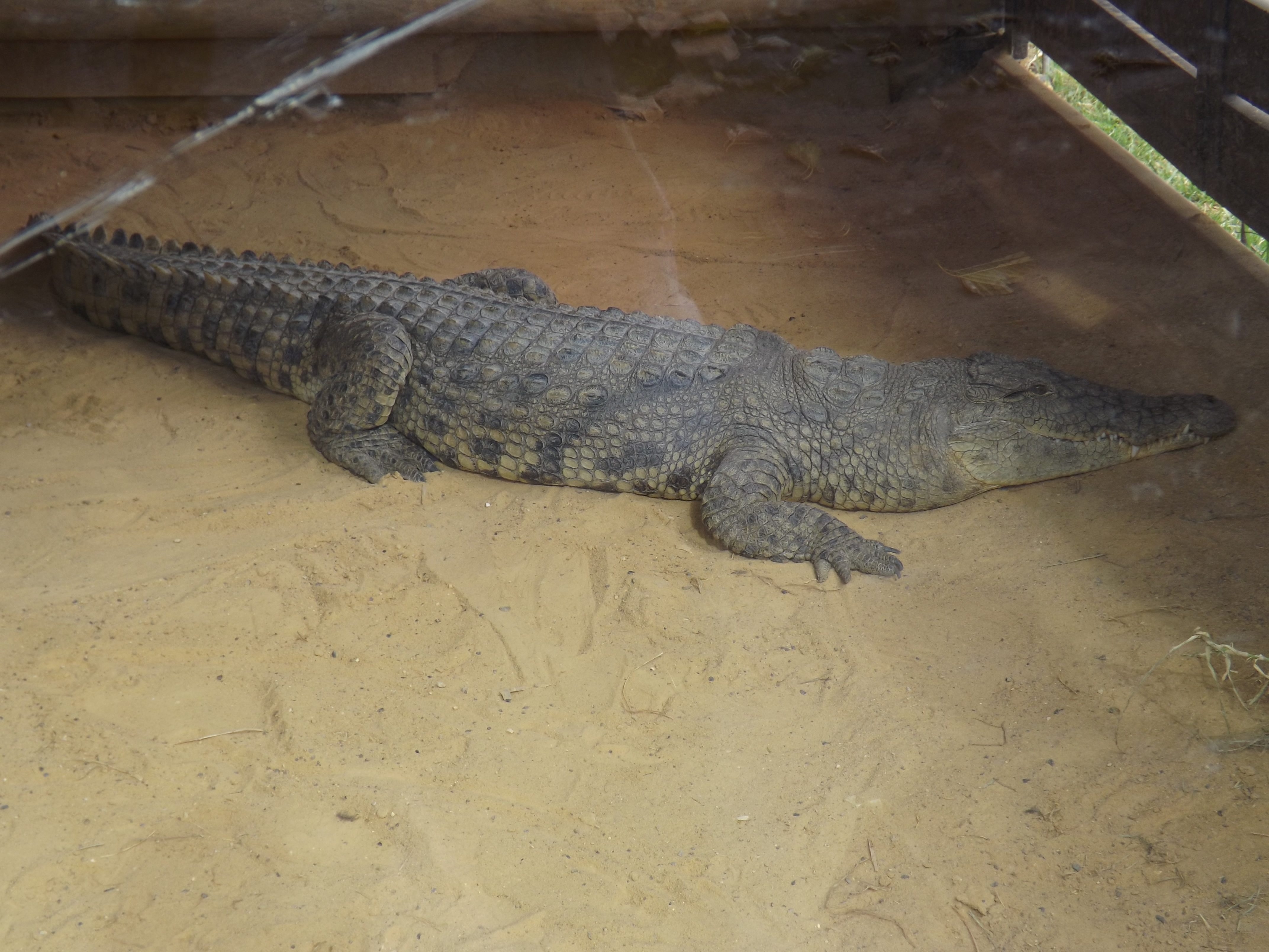 A Nile Crocodile (Crocodylus niloticus) at the Jerusalem Biblical Zoo.